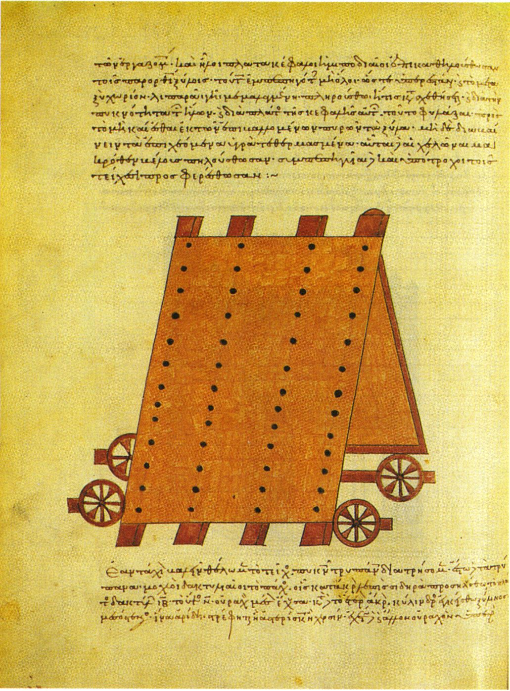 Apollodorus of Damascus, Poliorketika 148: siege engine. Paris, Bibliothèque Nationale, Graec. 2442, fol. 81v.